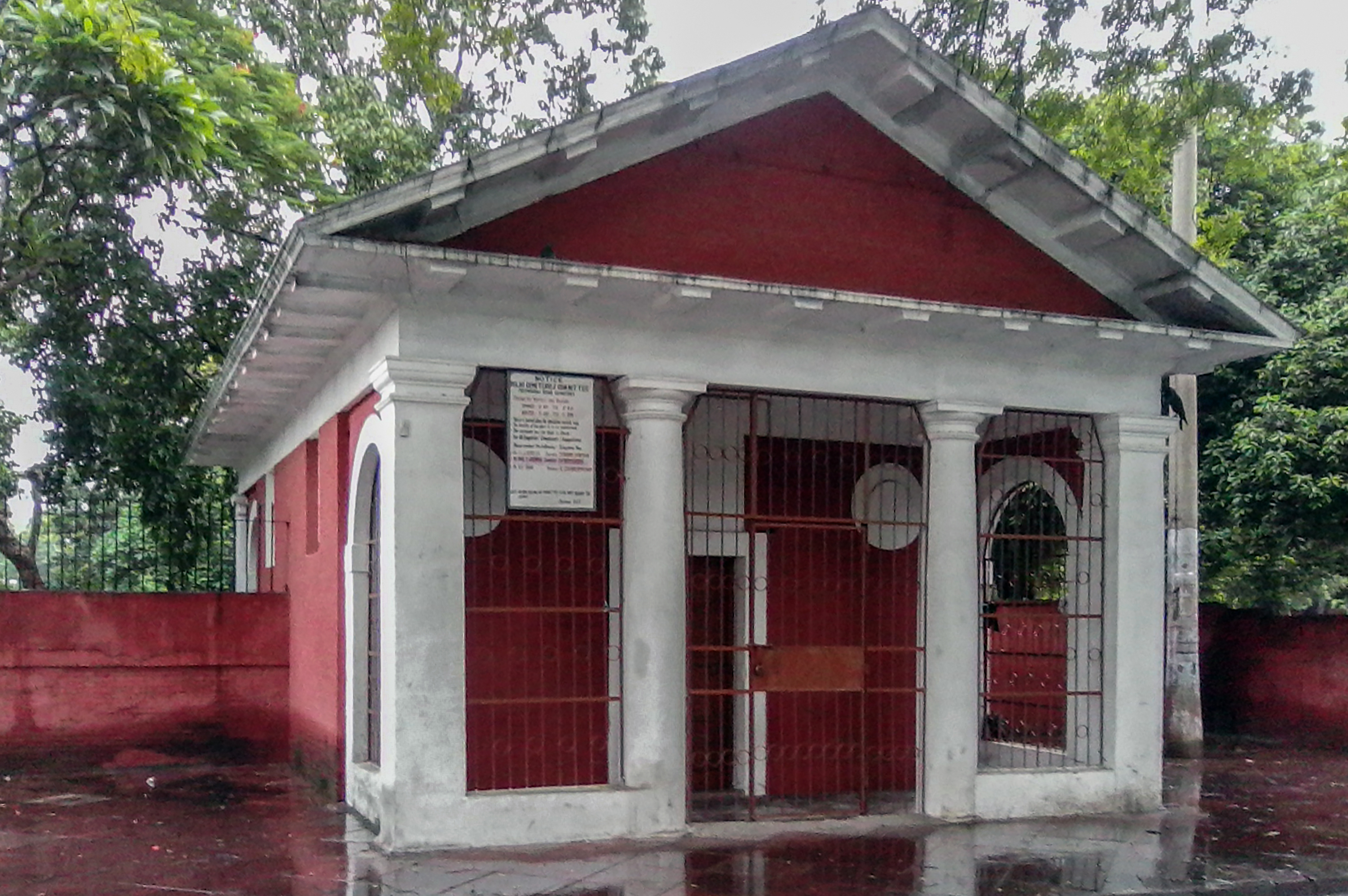 New Delhi Cemetery, A-3, Prithvi Raj Road, New Delhi, Delhi 110003, India